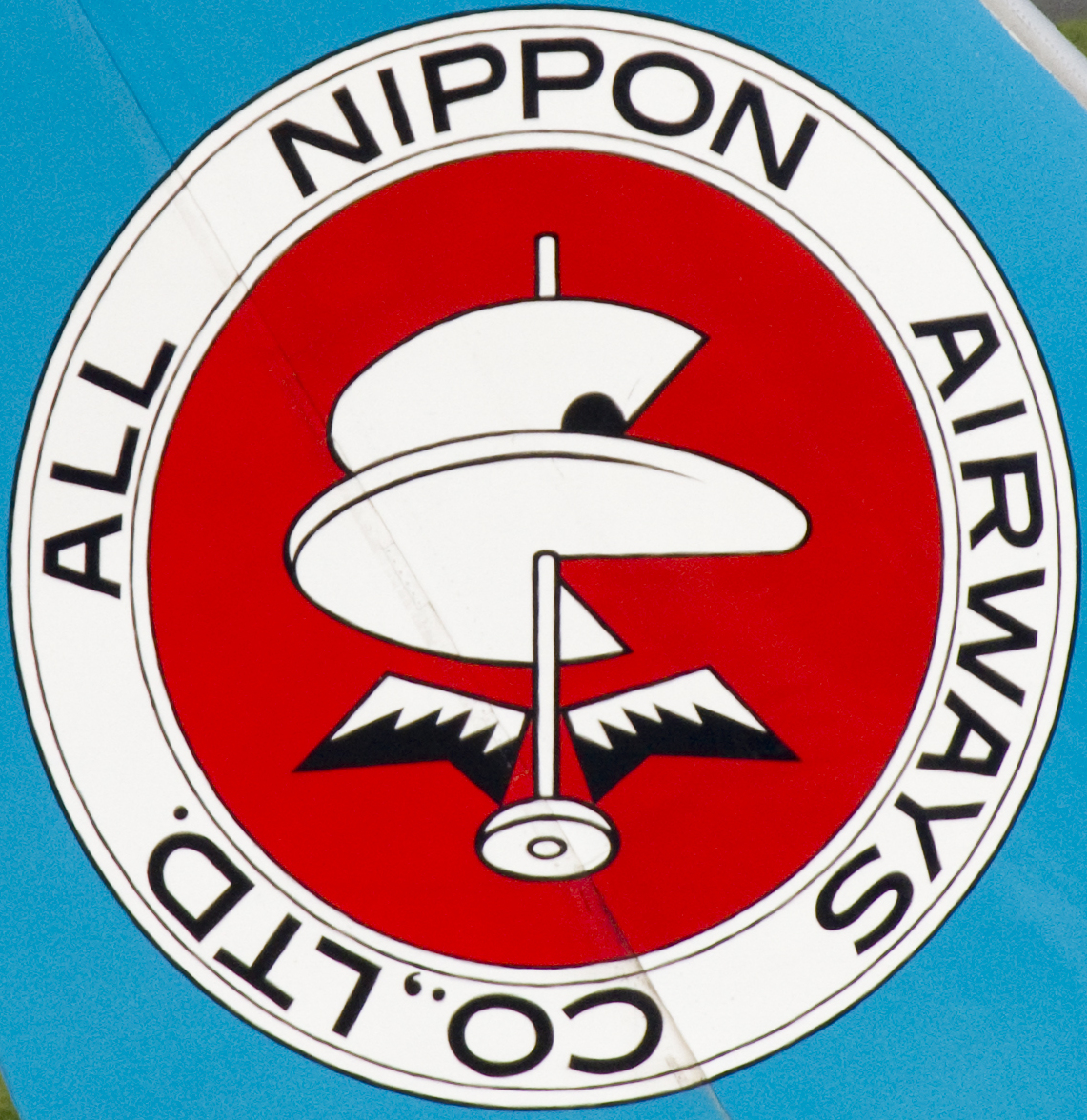 Classic logo of All Nippon Airways